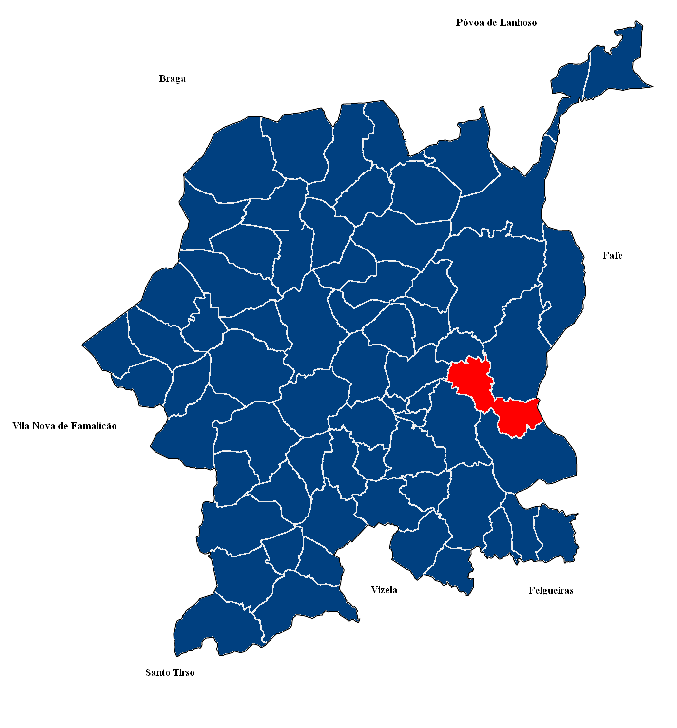 Map of Mesão Frio parish, Guimarães Municipality, Portugal